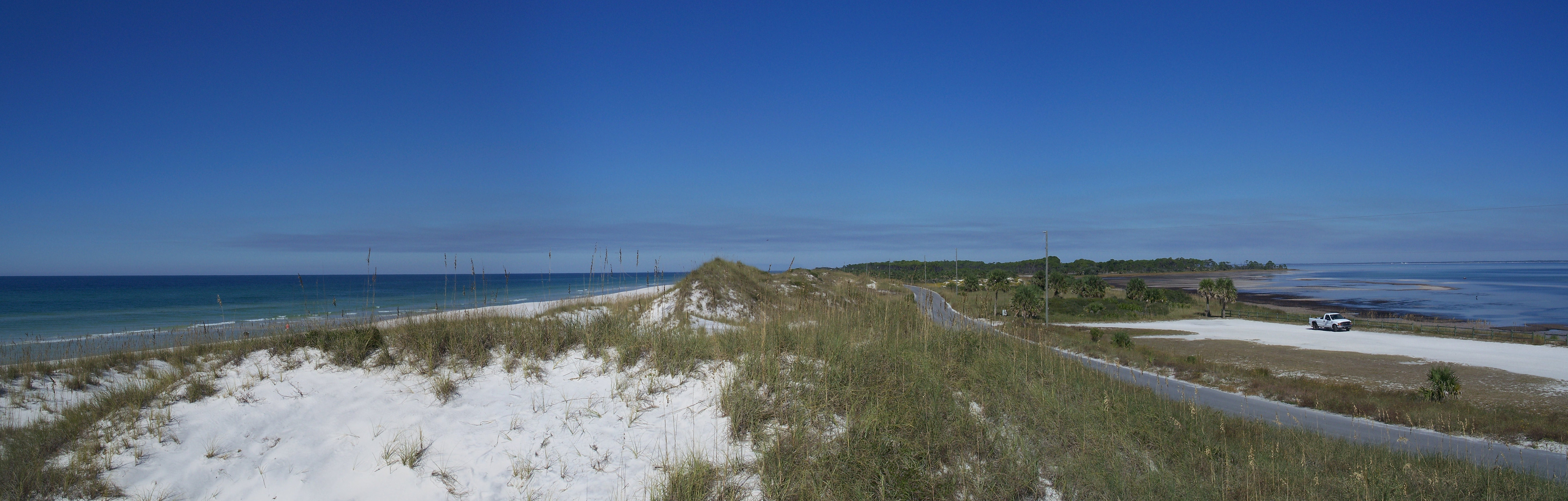 St. Joseph Peninsula State Park — beach and dunes, looking north.